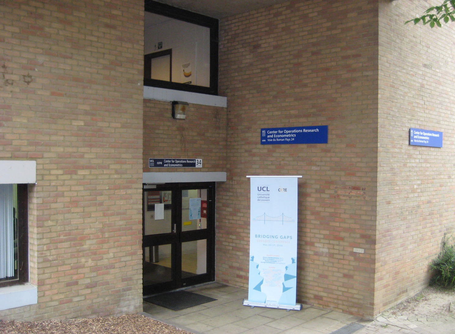 CORE